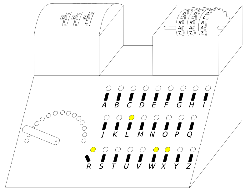 Diagram of Marian Rejewski's cyclometer (Inkscape)..